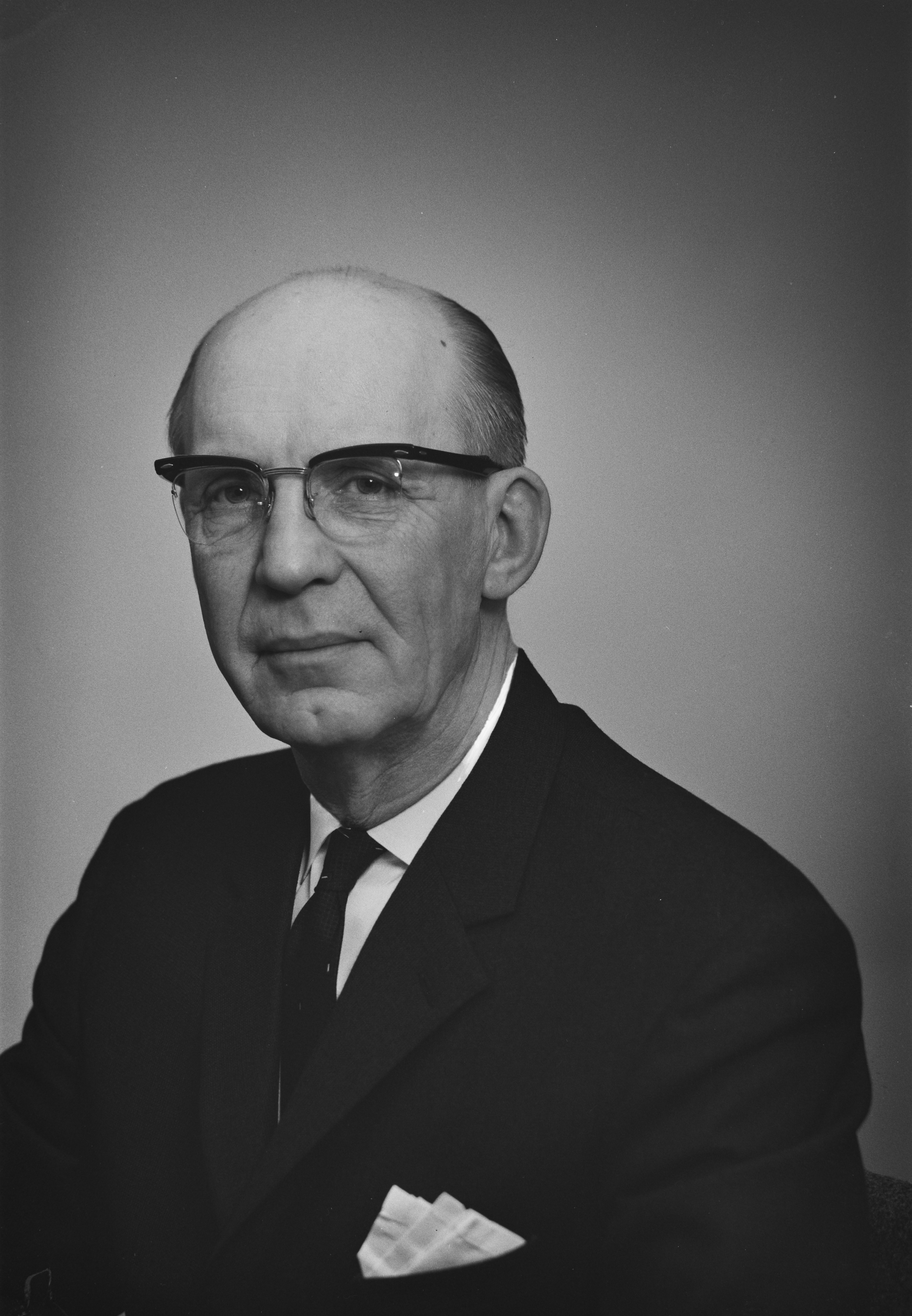 Photograph of the Finnish bandy player, businessman Allan Lagerström (1910–1998).